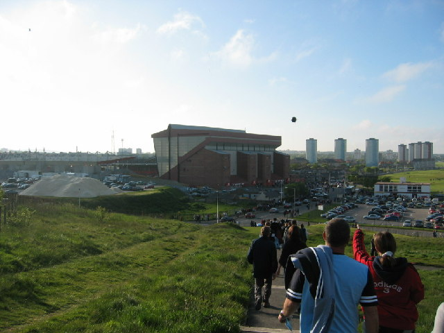 Pittodrie Stadium, Aberdeen. Summer evening at Pittodrie Stadium, from the Broad Hill.